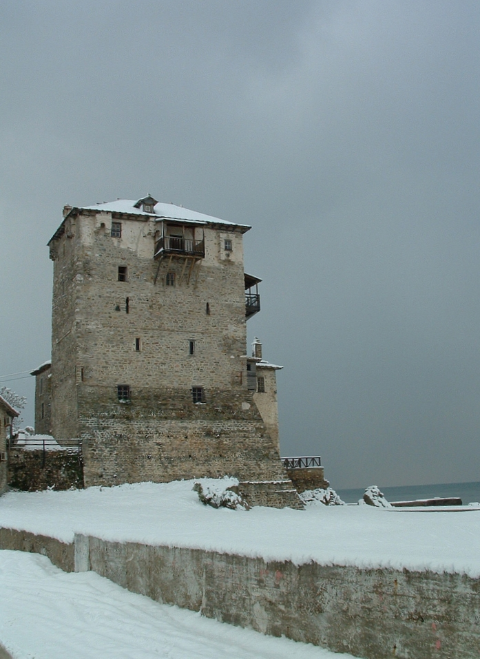 Byzantine watchtower in winter at Ouranoupolis, Chalkidiki, Greece.